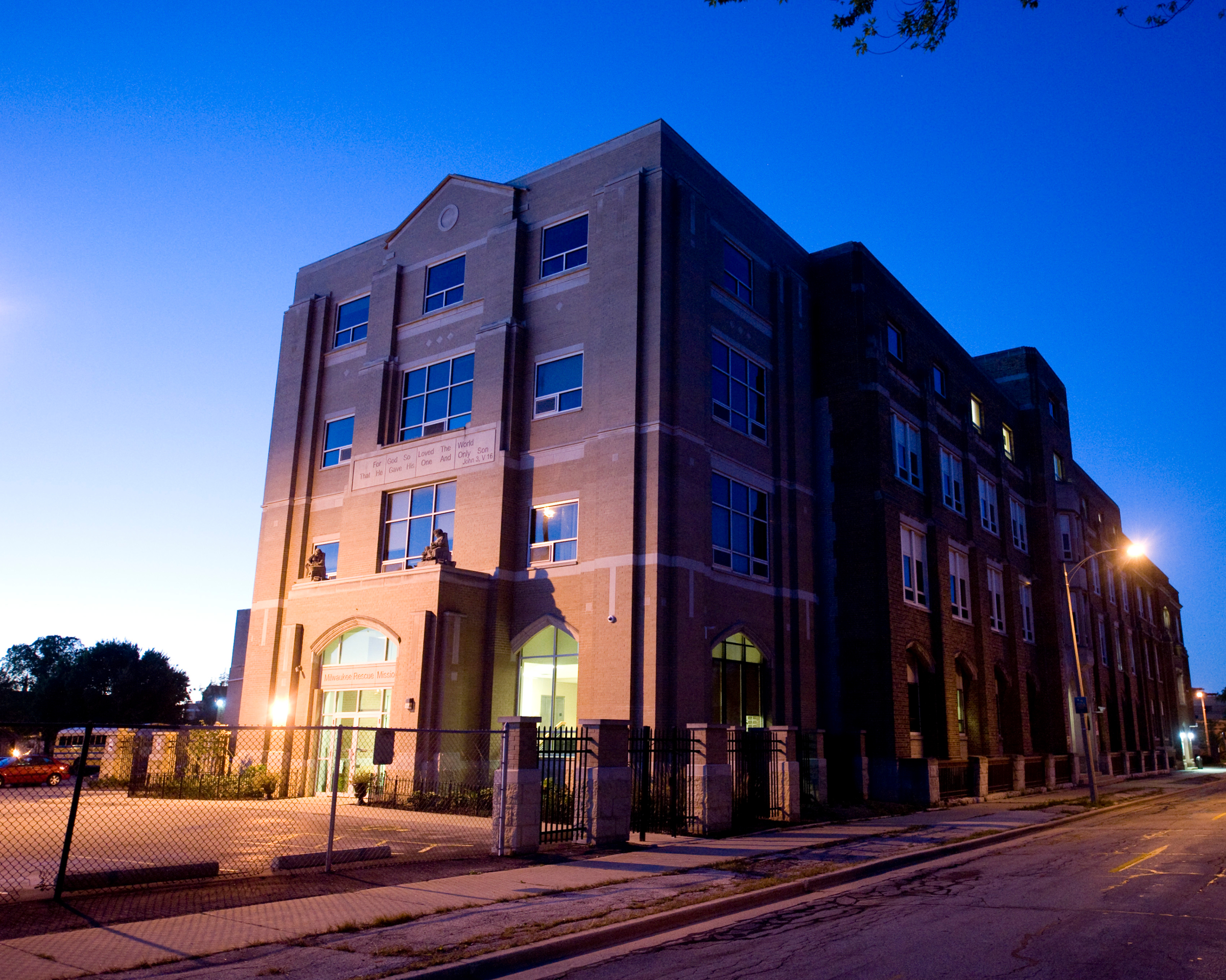 The building of the Milwaukee Rescue Mission on 19th and Wells.